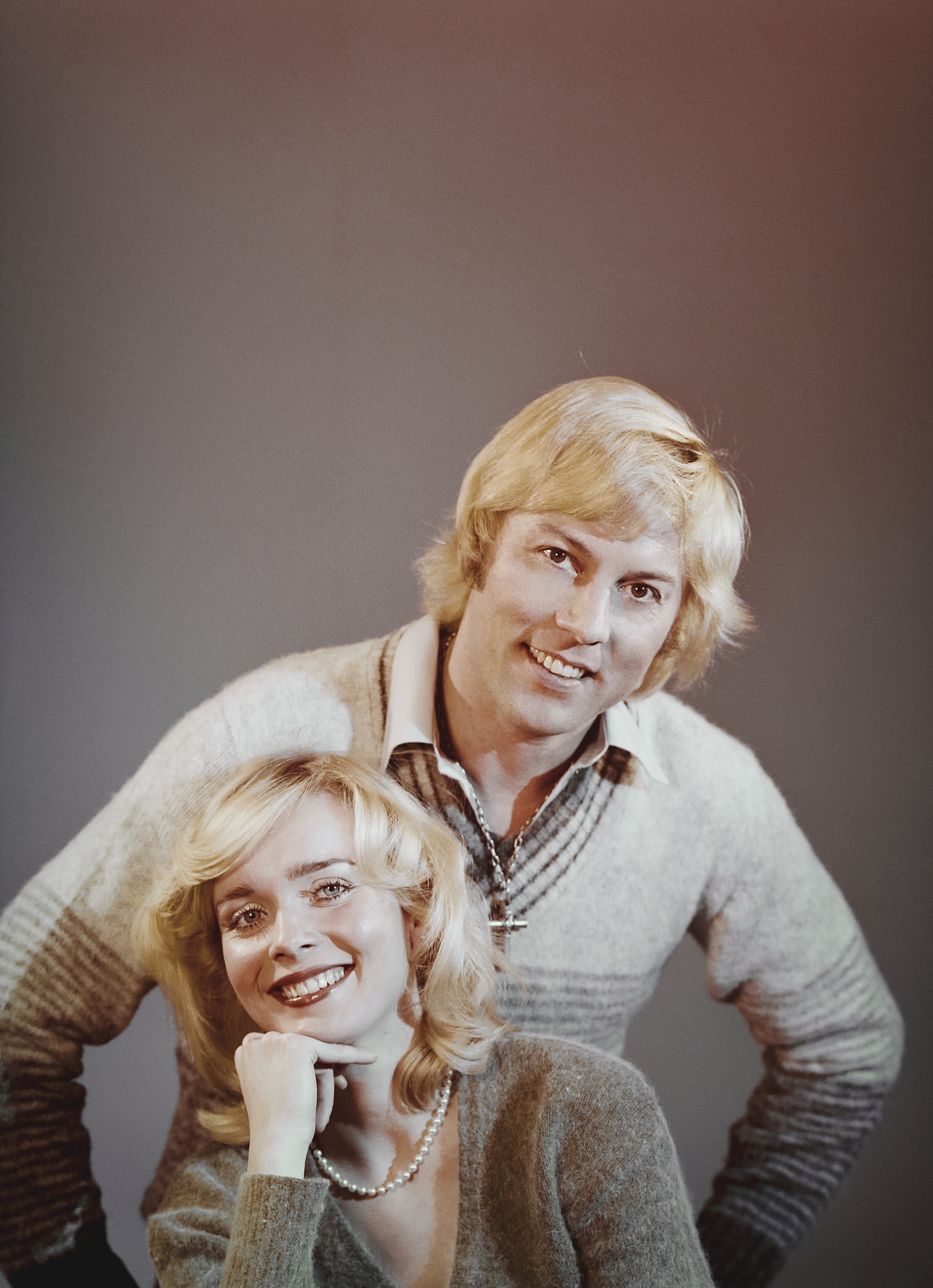 Photograph of the Finnish vocalist duo Armi and Danny (Armi Aavikko & Ilkka Lipsanen).